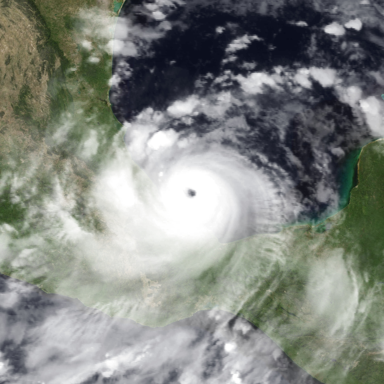 Hurricane Karl in the Bay of Campeche at 09:45 UTC on September 17, 2010. At the time, Karl was a Category 2 hurricane.